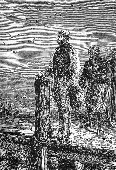 An ilustration from the novel "Around the World in Eighty Days" by Jules Verne painted by Alphonse de Neuville and/or Léon Benett.